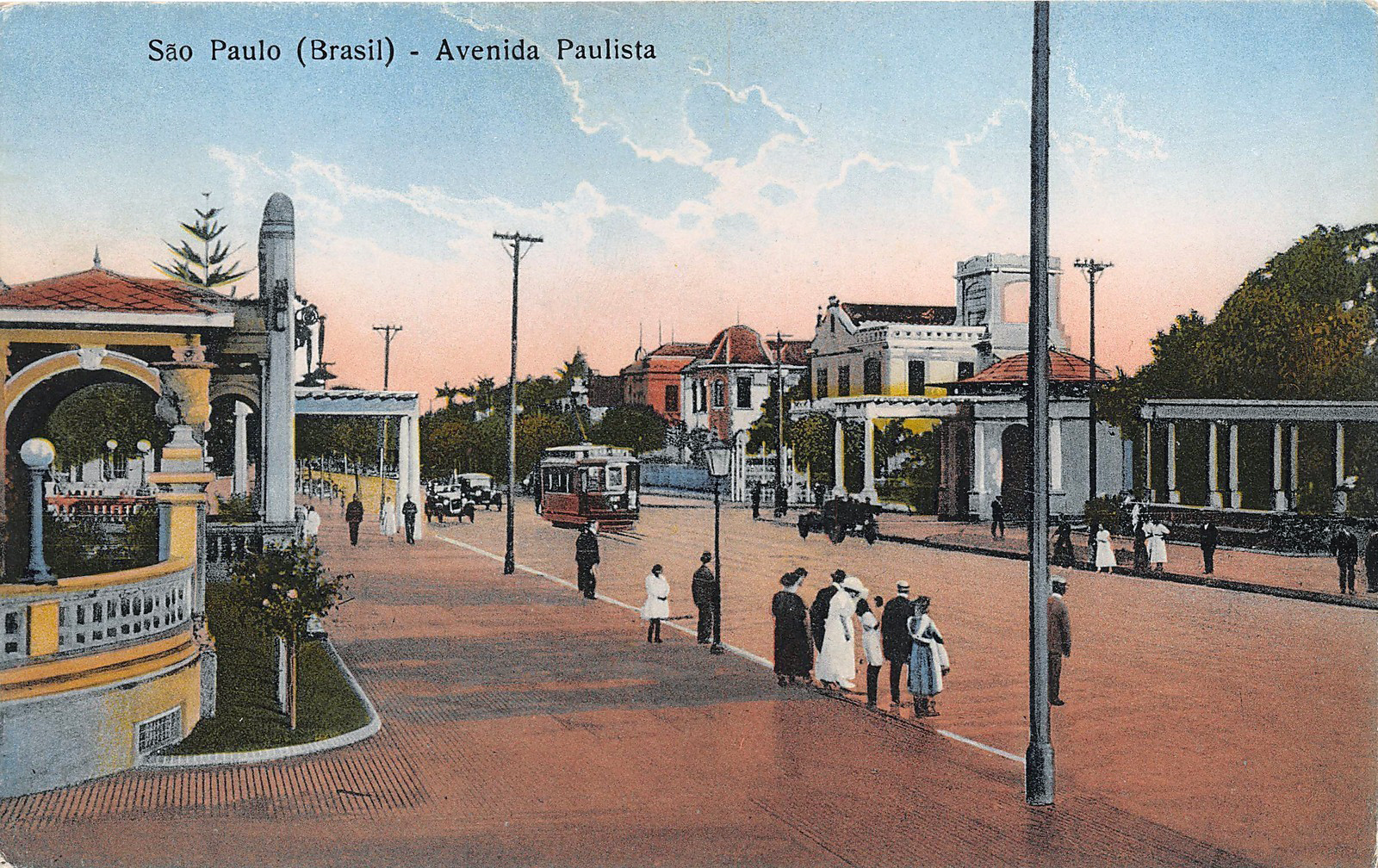 Paulista Avenue in 1923. The Trianon Belvedere is on the left (on the same spot where the São Paulo Museum of Art (MASP) was built in the 1970s. The Trianon Park is on the right side.